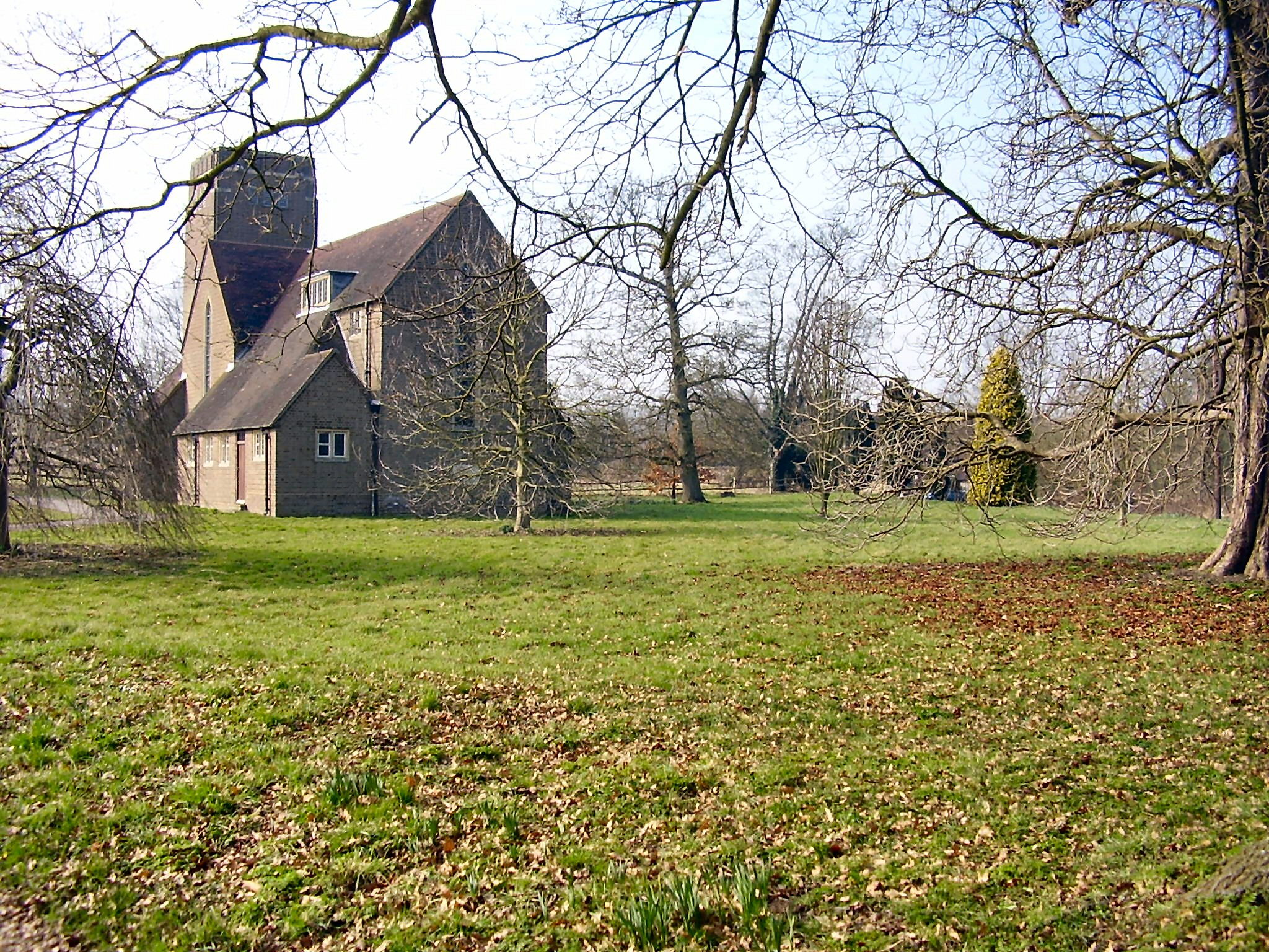 St Mary's, Little Chart (replacement church)